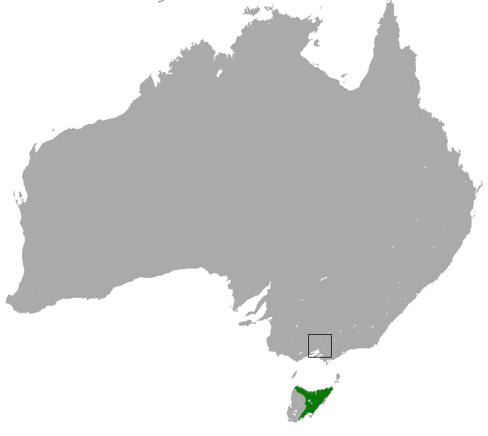 Eastern Barred Bandicoot (Perameles gunni) range (green — native, pink — reintroduced)